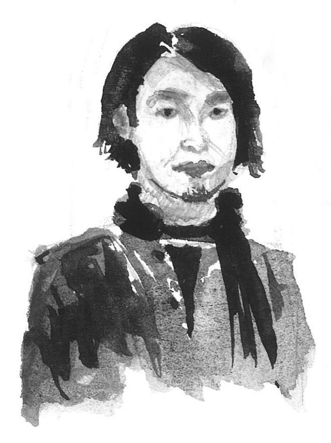 Drawn portrait of Junya Ishigami